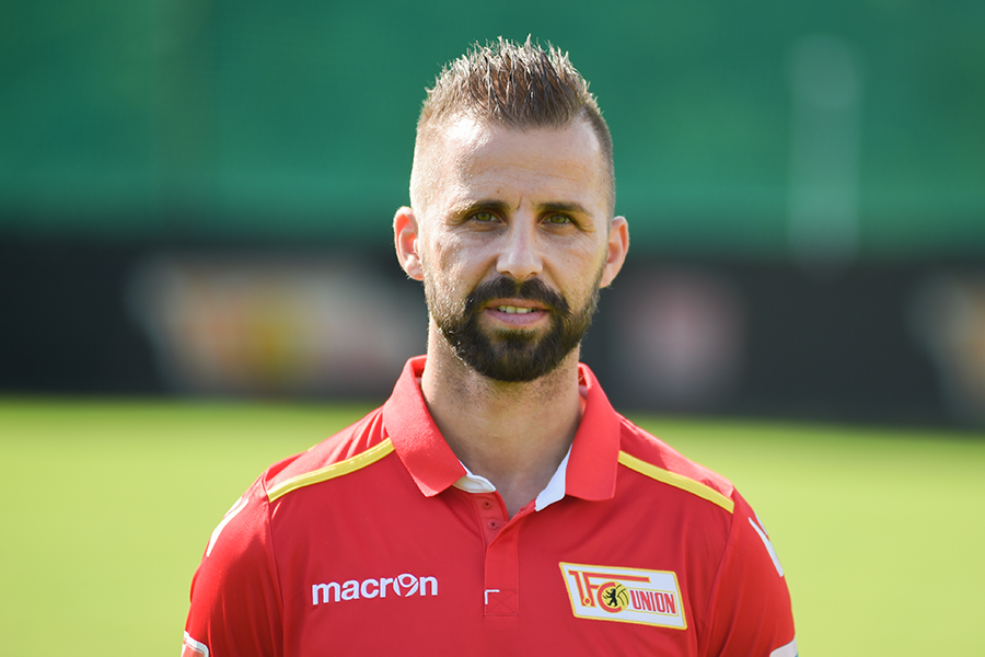 Teamfoto 2016/17